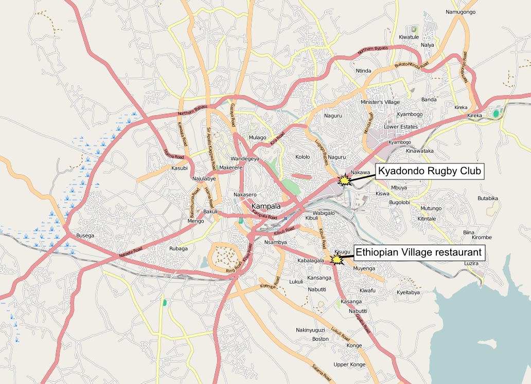 Map showing the two locations of the July 2010 Kampala attacks